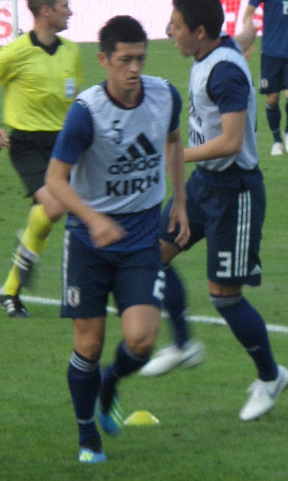 Naomichi Ueda at Switzerland vs Japan (June 2018)